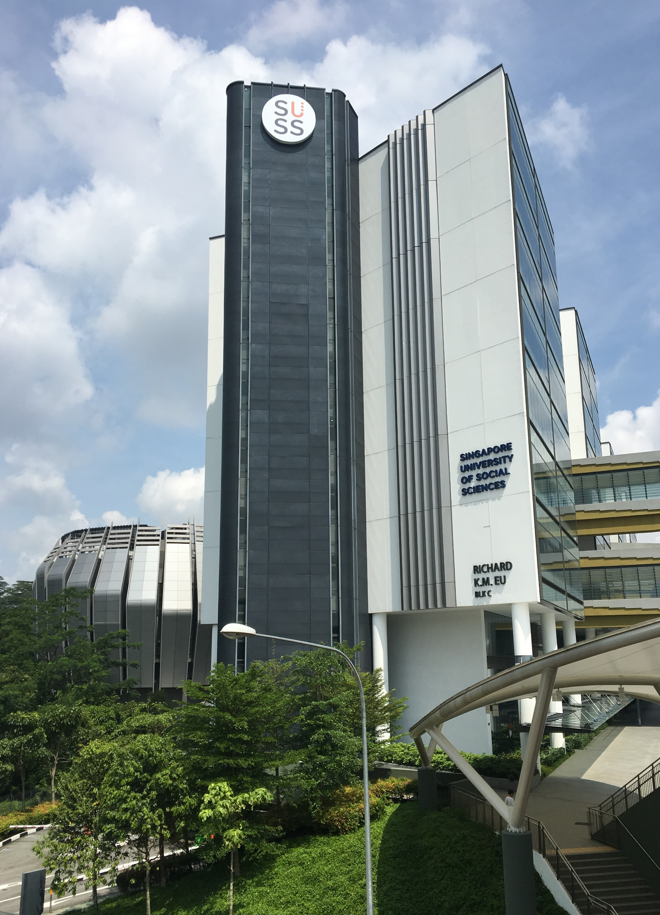 SUSS_Building